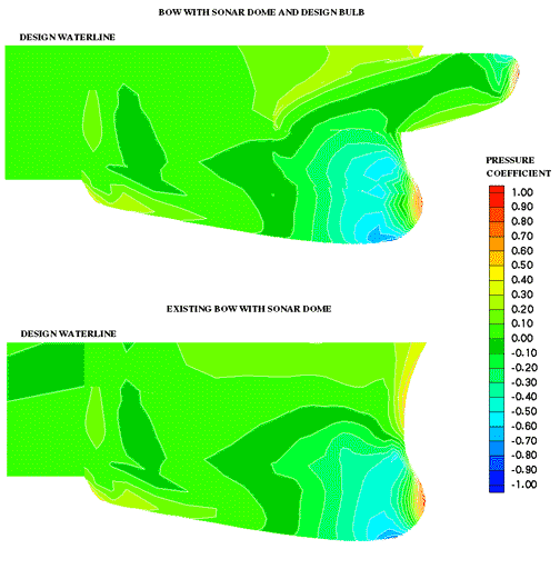 CFD calculated flow field pressures over the DDG-51 bow region with/without the Design Bulb, at 20 knots